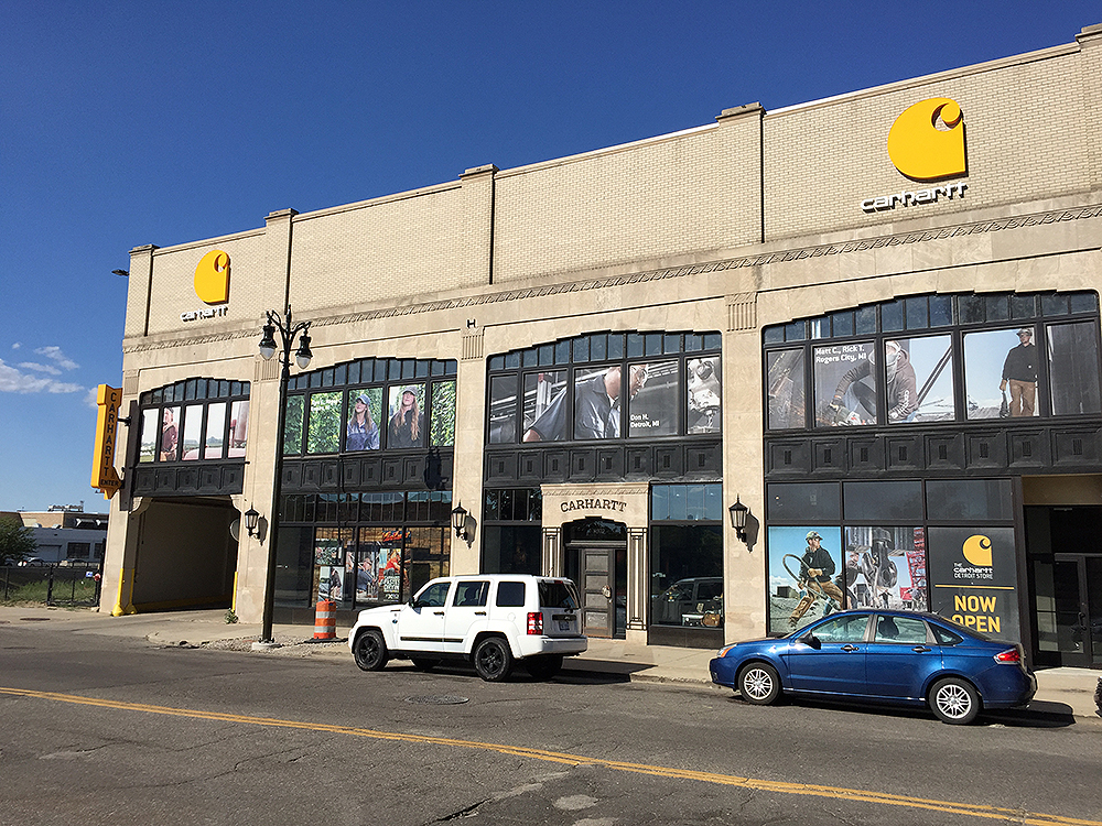 Carhartt's flagship store on Cass Avenue in Detroit, Michigan, USA